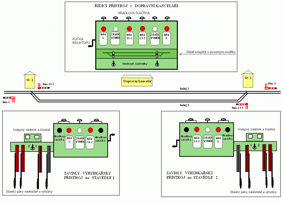 Diagram of a railway station with mechanical interlocking. One interlocking machine Rank type at station building (train dispatcher operate it) and two lever frames 5007 type at signalboxes, operated by signalmen. Common arrangement in the Czech rep.